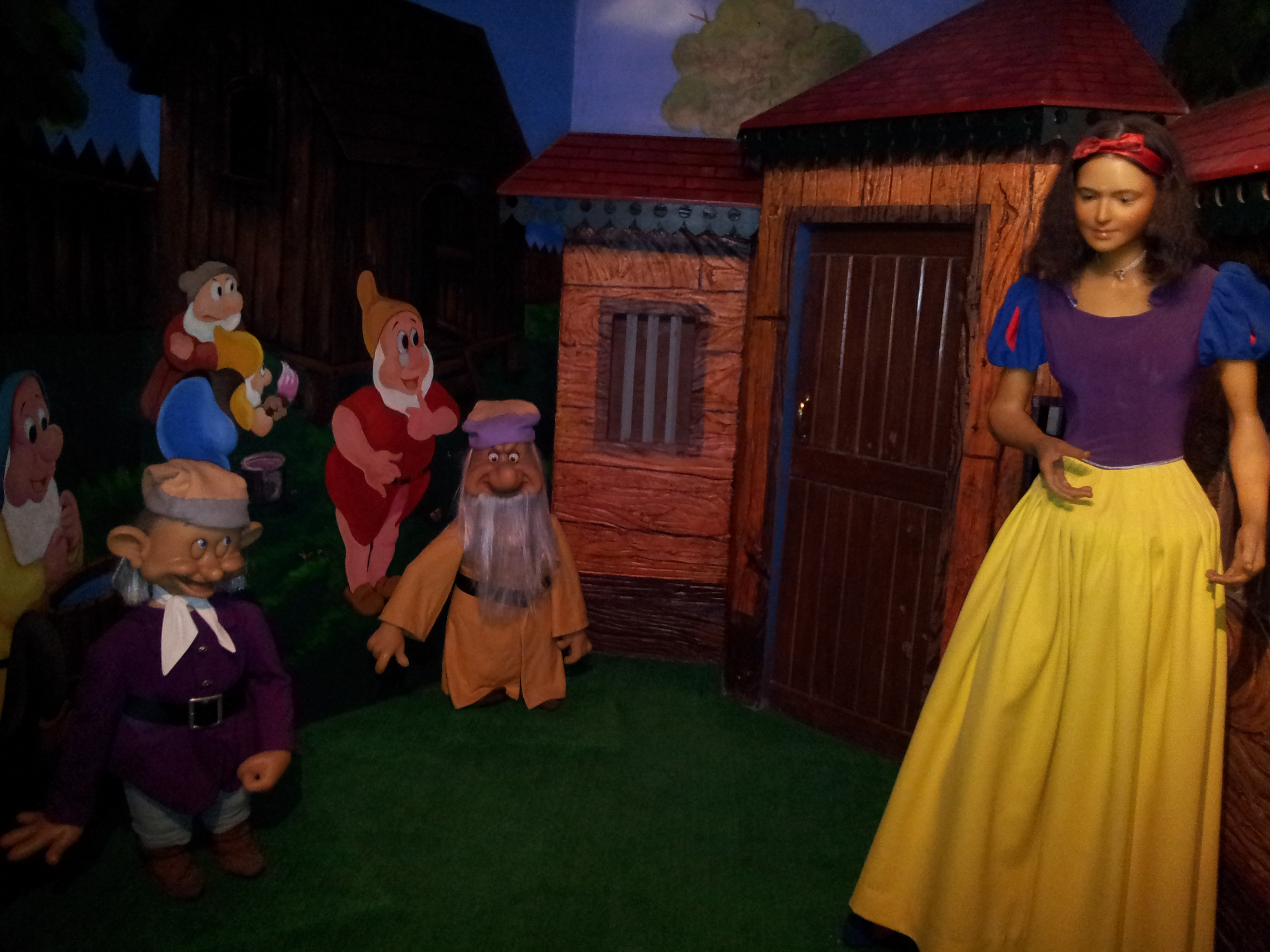 Snap from Wax Museum at Innovative Film city Bangalore